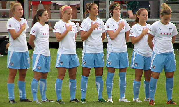 Red Stars line up for the Anthem in St.Louis